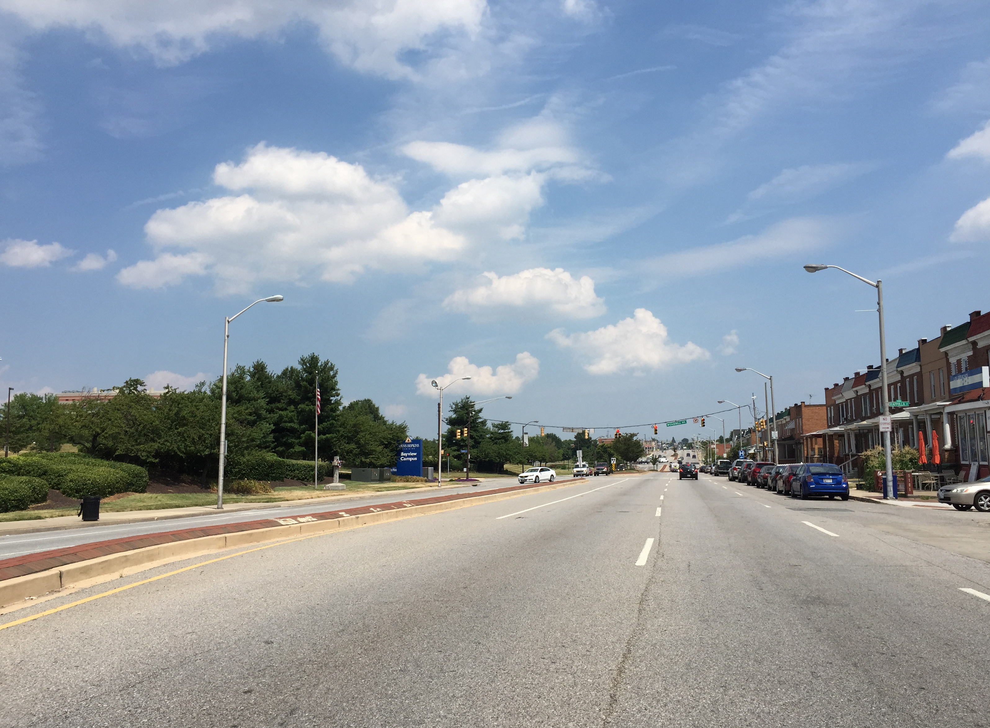 View east along Maryland State Route 150 (Eastern Avenue) at Rappolla Street in Baltimore City, Maryland